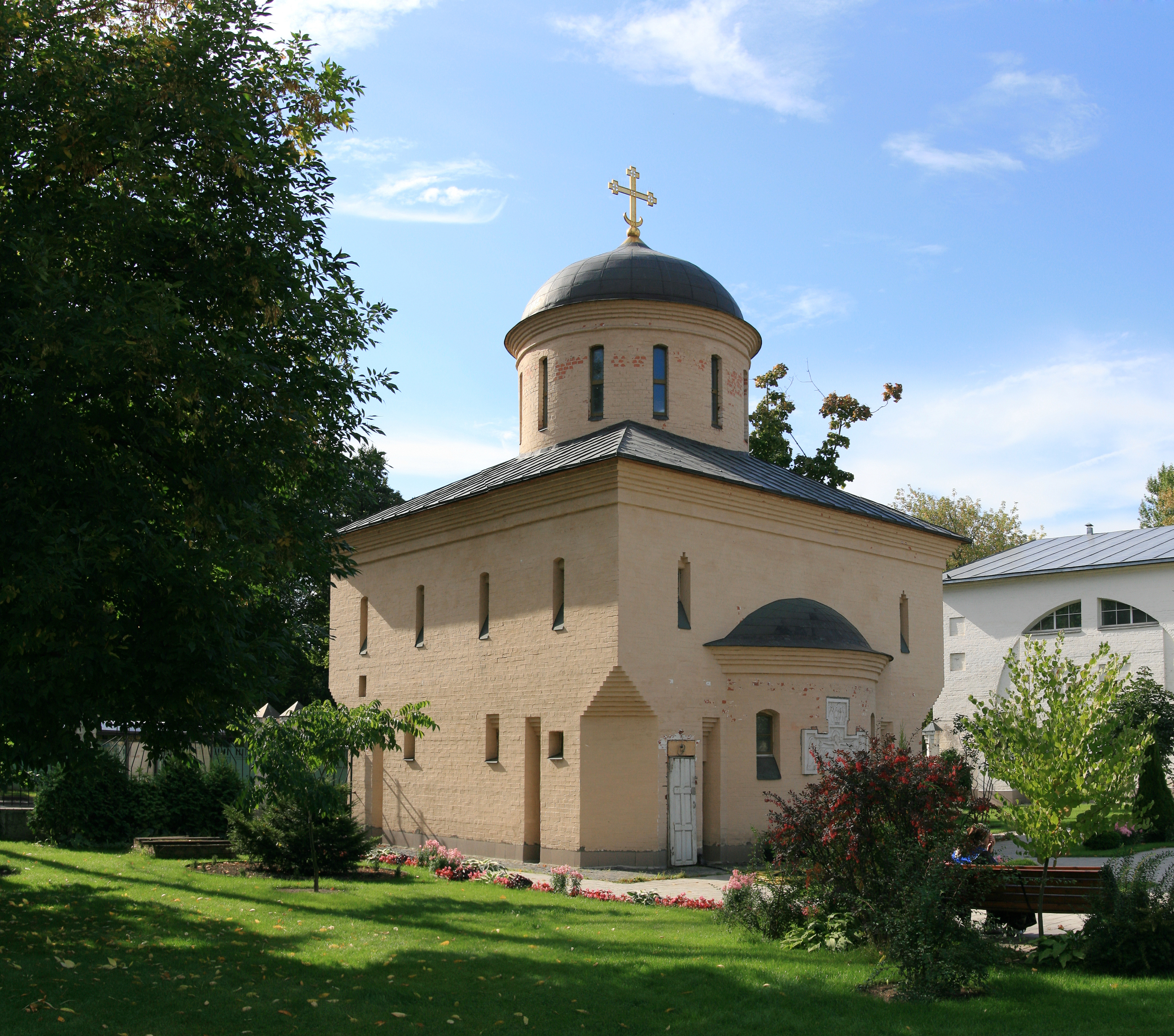 Church of the New Martyrs and Confessors, XXI, Petrovsky park, Moscow